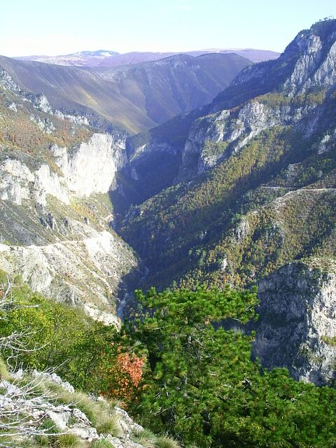 Rakitnica River and its valley, Bosnia and Herzegovina